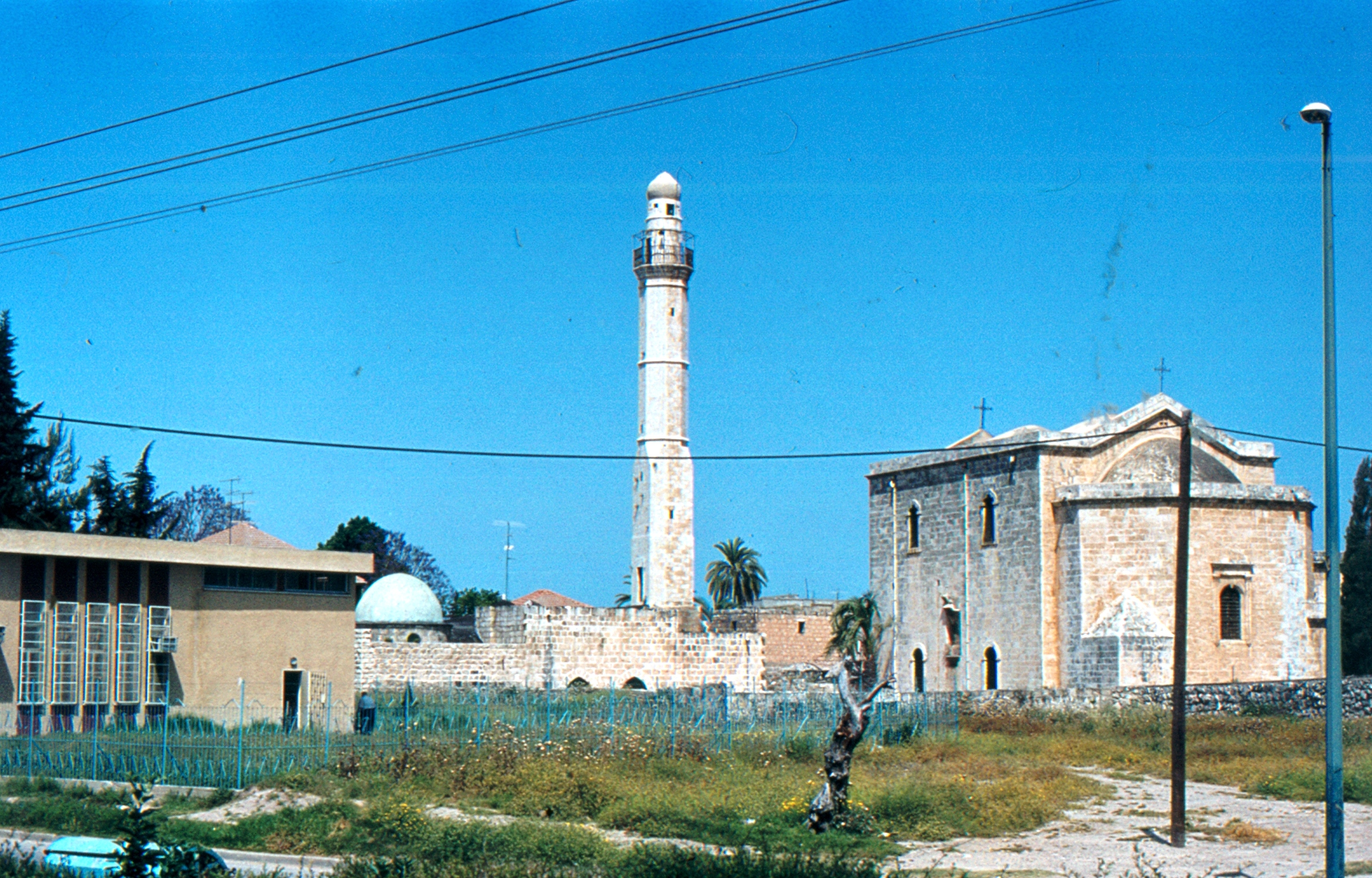 The_square_of_Synagogue_e_church_a_Mosque